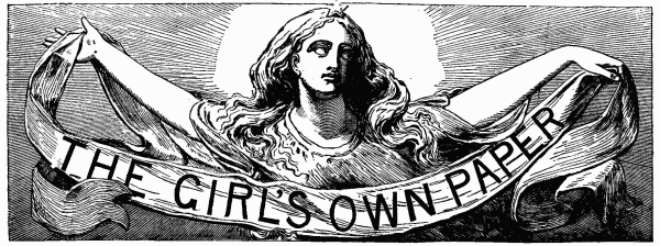 Masthead illustration from the 6 November 1886 edition of The Girl's Own Paper, a British story paper catering to girls and young women, published from 1880 until 1956. Image is based on the sculpture The Spirit of Love and Truth by Joseph Edwards (1814-1882).